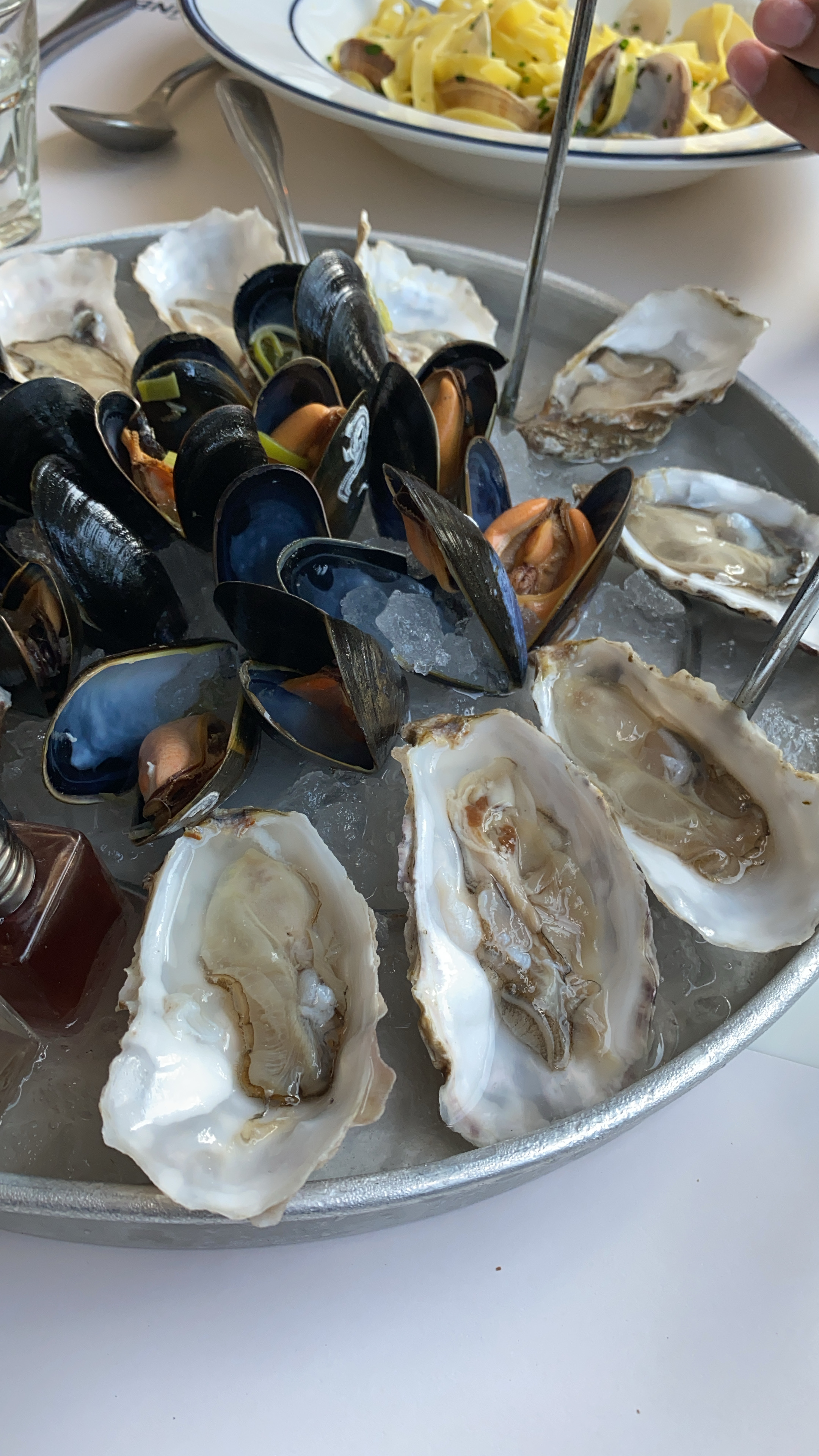 seafood mix with oyster in Dubai